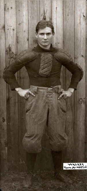 This historic photograph is of Frederick "Mysterious" Walker as a collegiate football player for the University of Chicago.